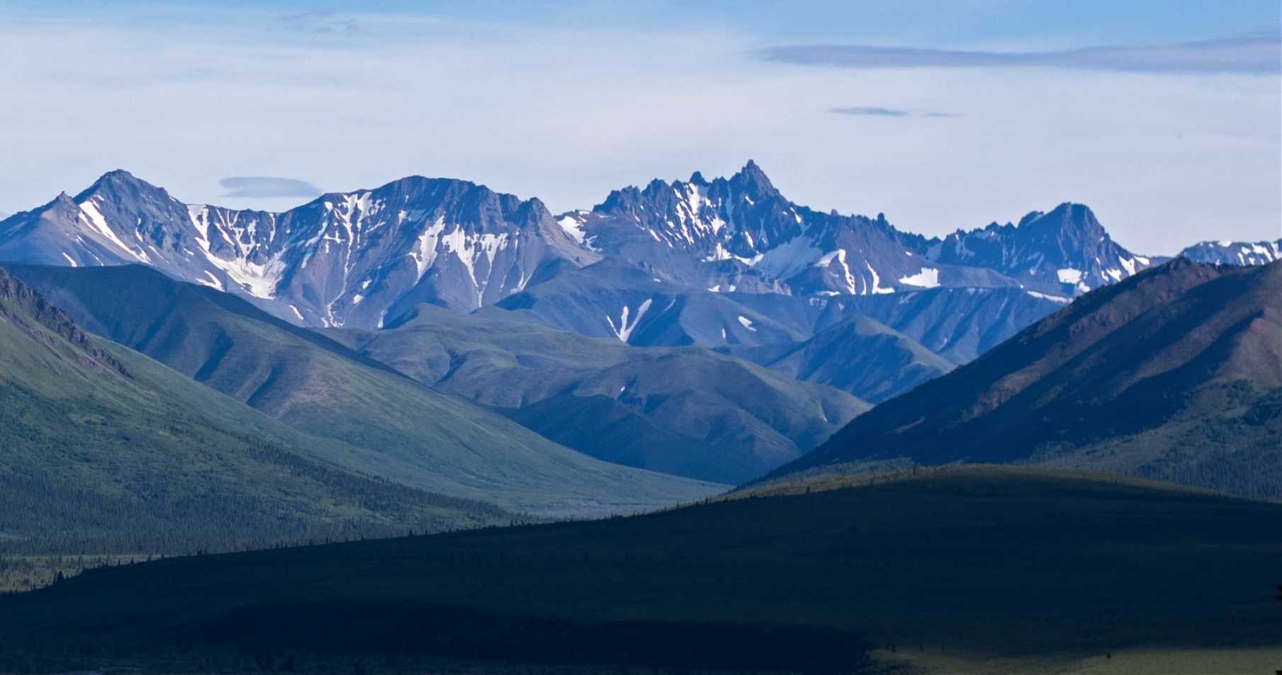 Fang Mountain, the sharpest peak in the distance, forms the headwaters of Savage River